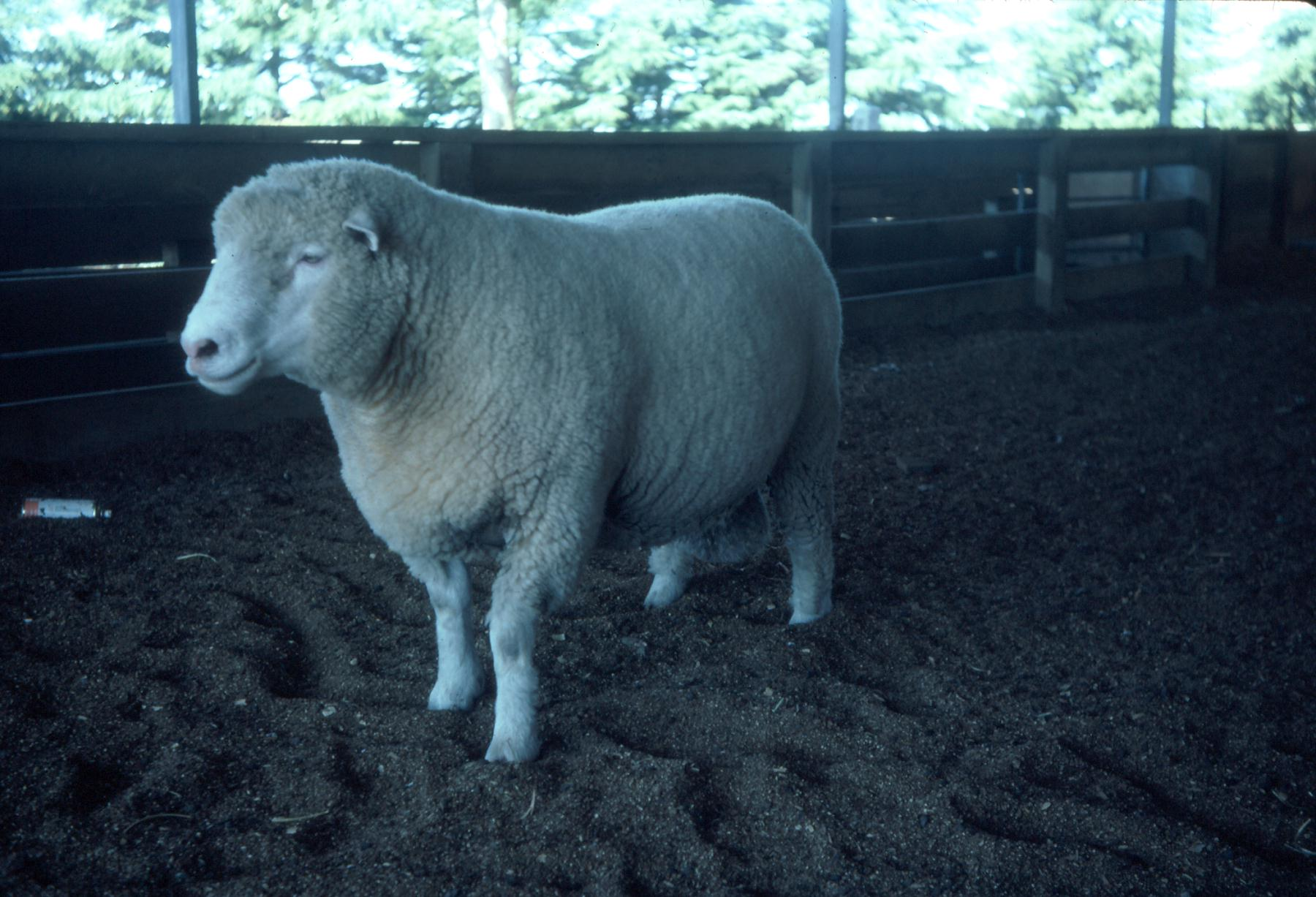 Copland family farm "Tillyfour" Chertsey Mid-Canterbury New Zealand